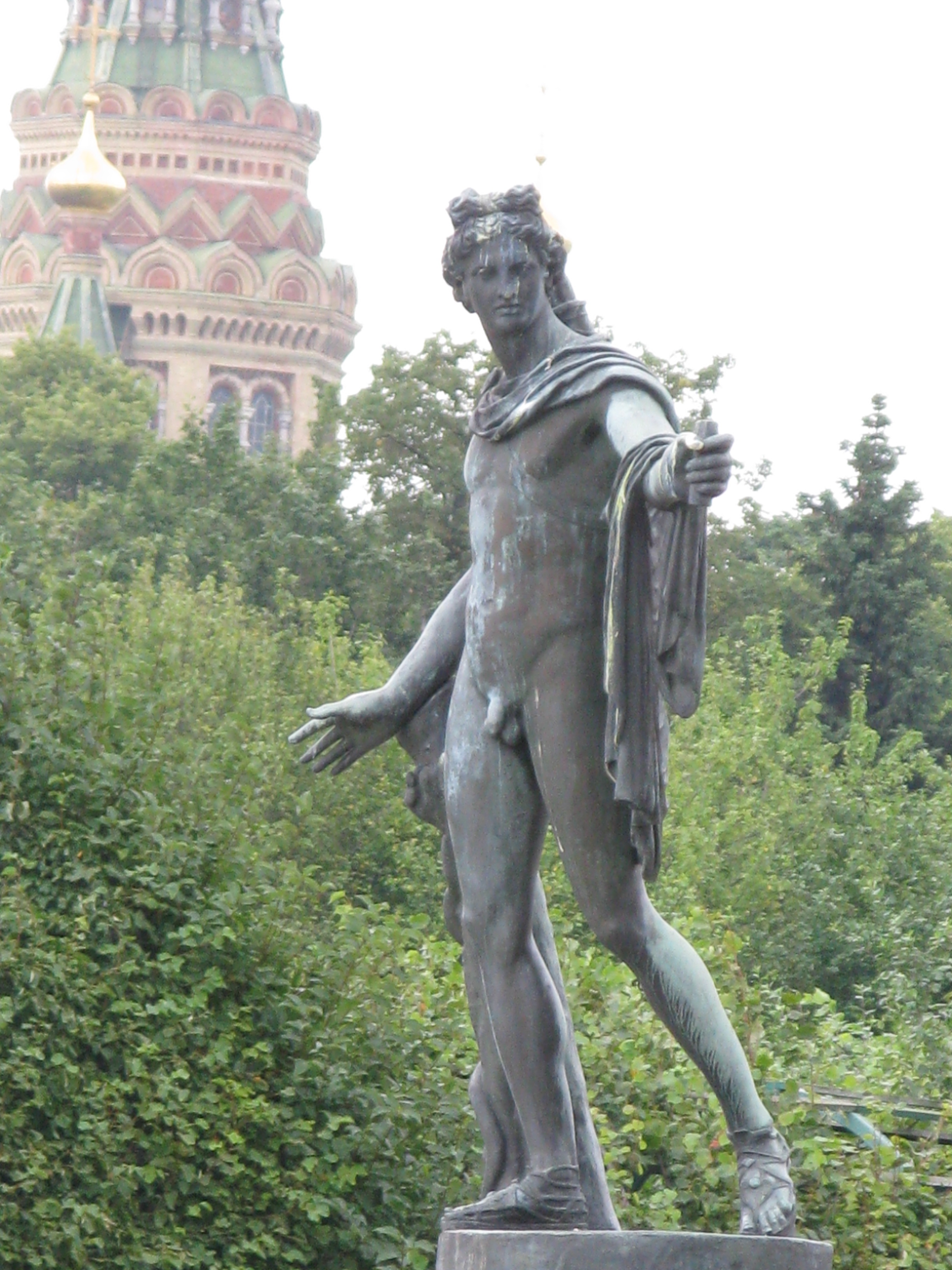 Apollo Belvedere at Upper Gardens of Peterhof